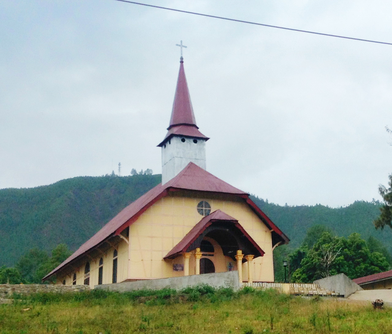 HKBP Tampahan, Church in Tampahan, Tampahan, Toba Samosir